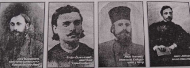 Executed priests from Bela Palanka 1915th